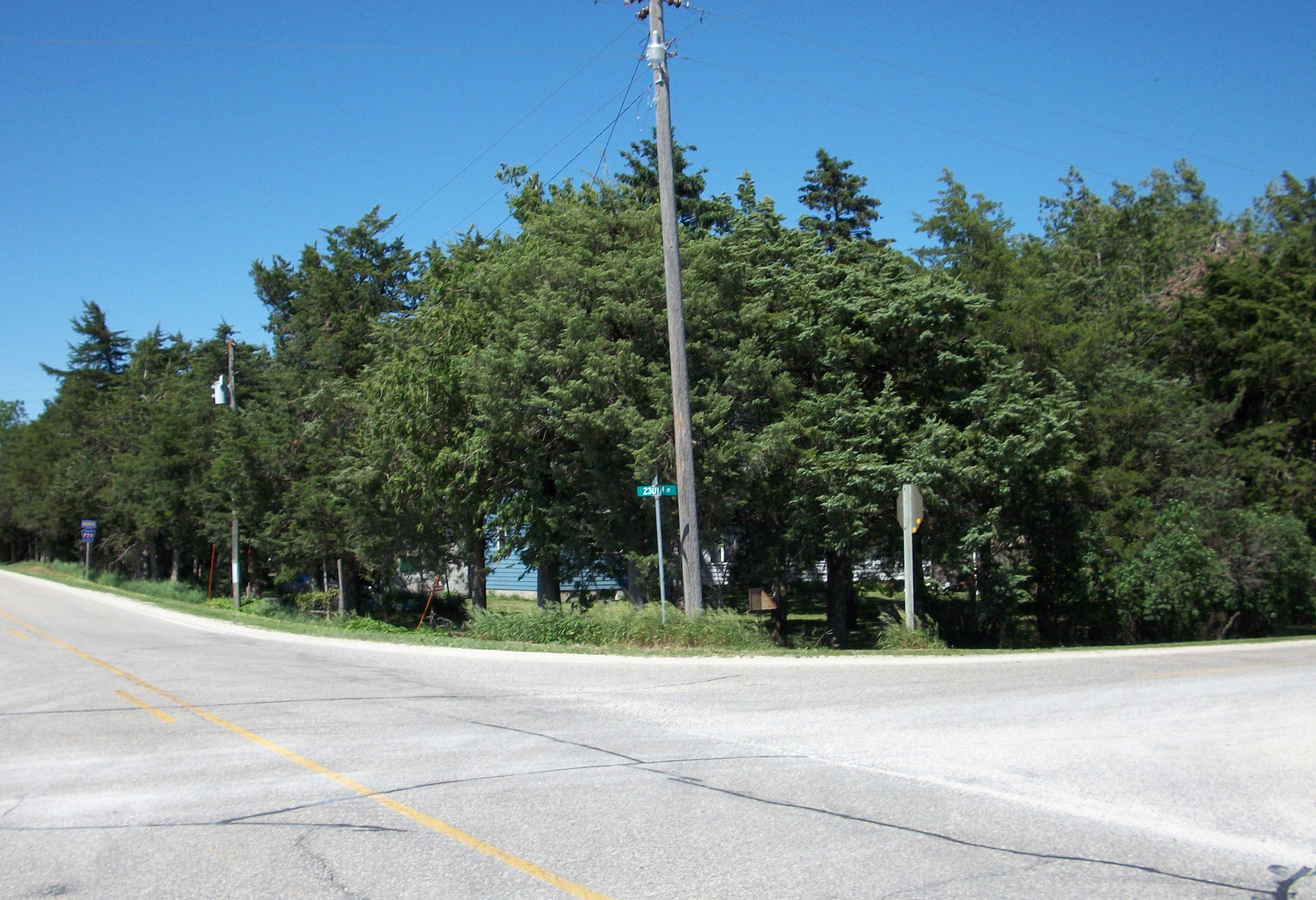 The former location of Unique, Iowa. Unique is a former town in Humboldt County. The metal sign in the center formerly said "Unique, Iowa". This area is now called Unique Corner by farmers. It is the intersection of Humboldt County Routes C44 and P29.